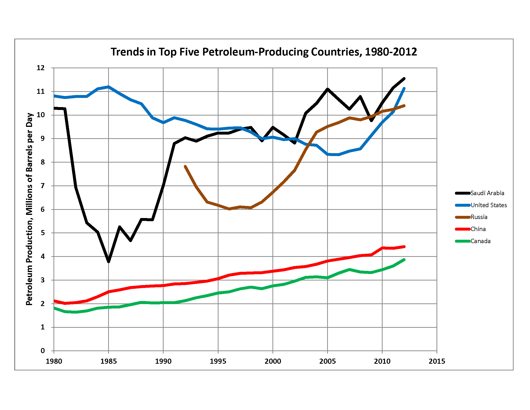 Trends in the top 5 oil-producing countries, 1980-2012